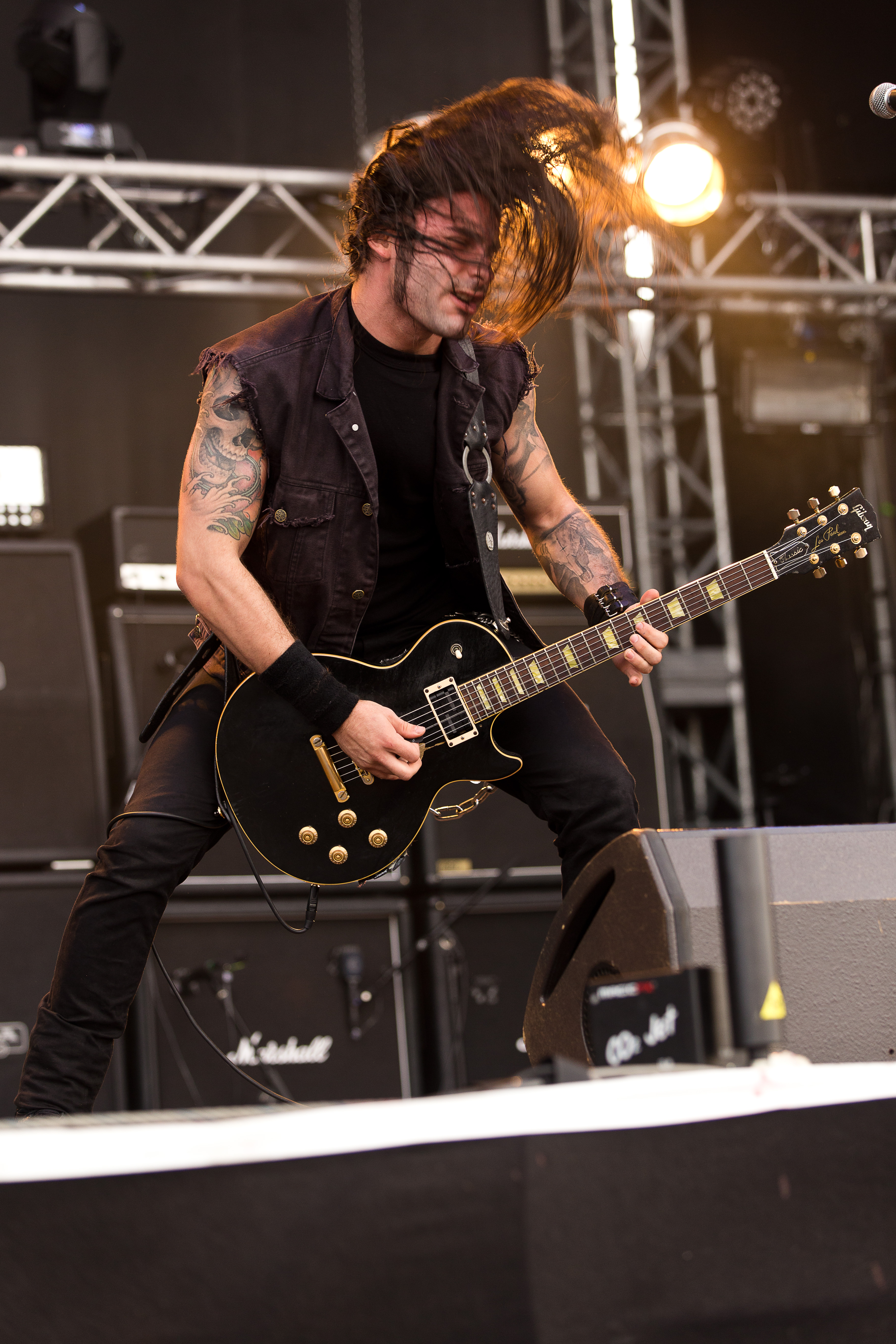 The Greek metal band Rotting Christ at the Party.San Open Air 2015 in Obermehler-Schlotheim/Germany.